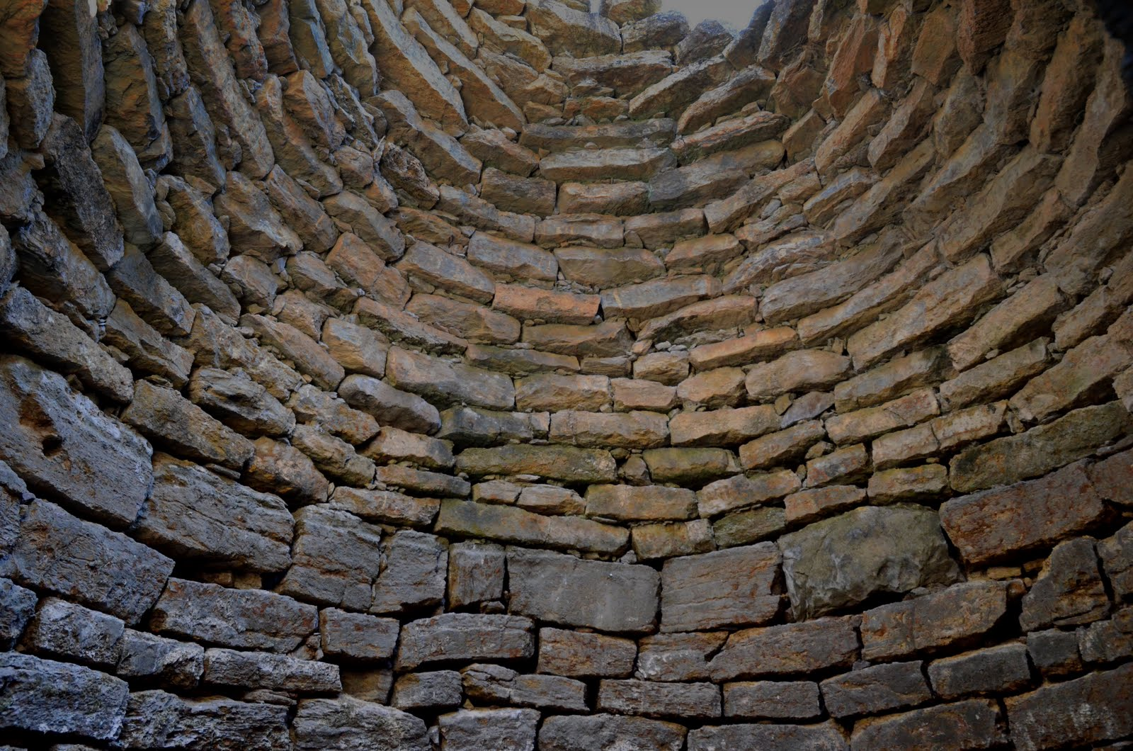 Funtana Coberta Sacred well: Tholso from inside - Ballao - Sardinia - Italy